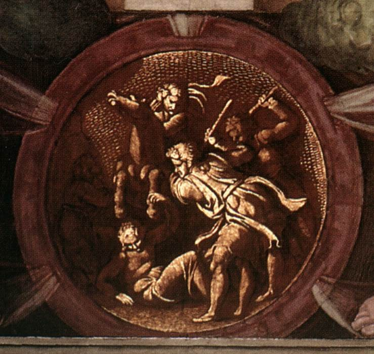 Sistine Chapel, fresco Michelangelo, the death of Uriah